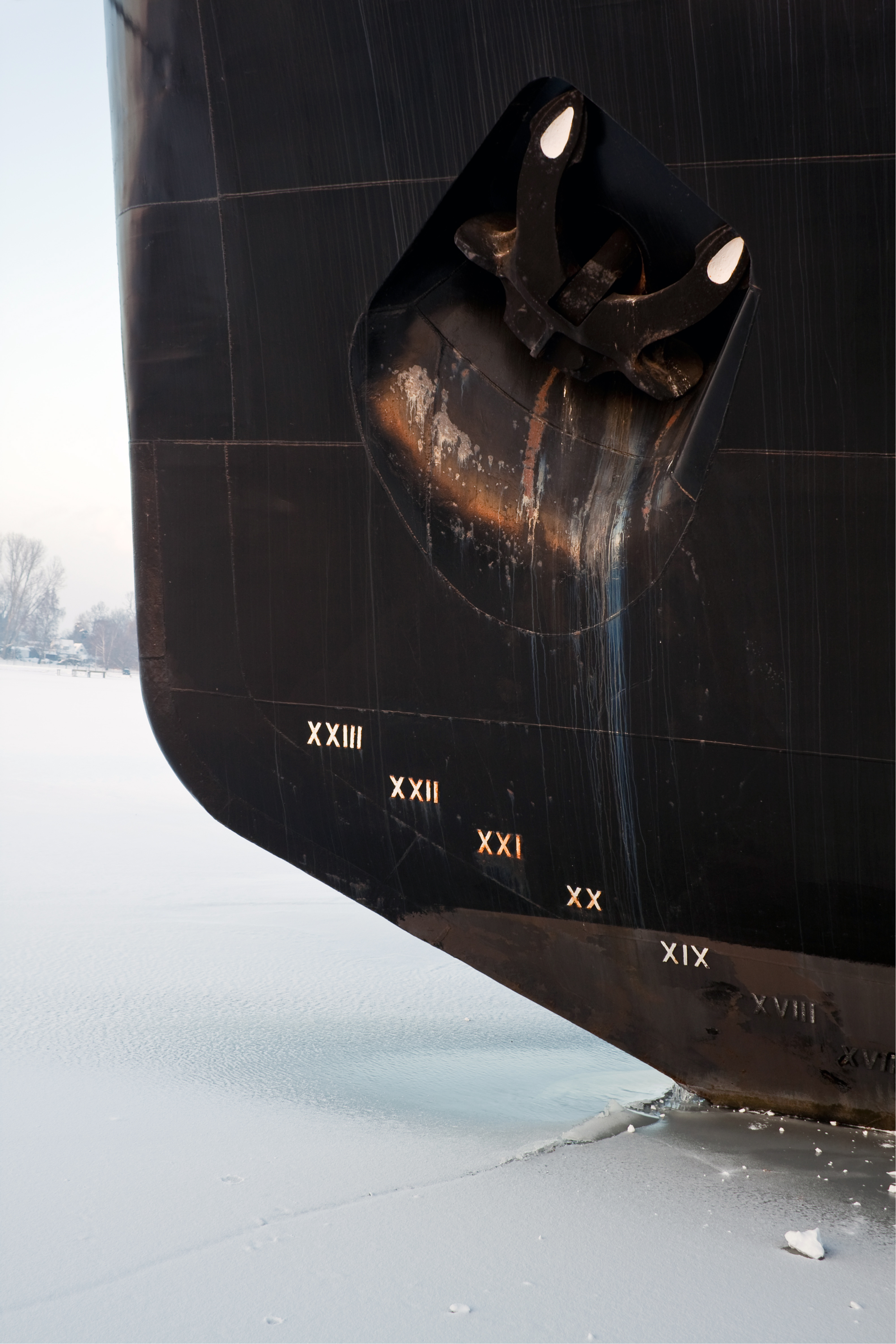 The bow of the icebreaker Stephan Jantzen, now out of commision (since 2005), in the port of Rostock.